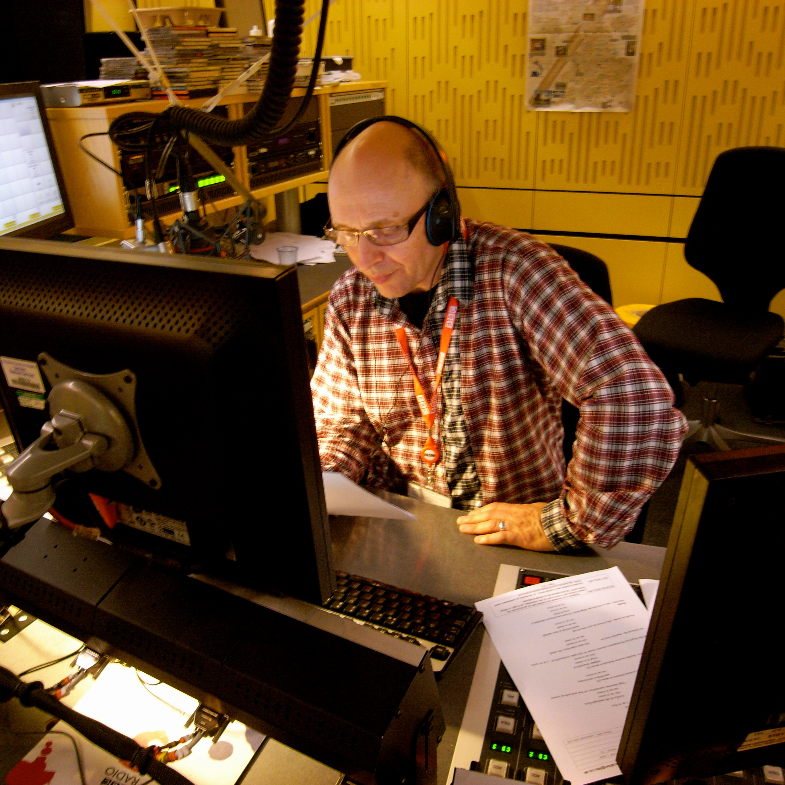 Max Reinhardt broadcasting from a BBC Radio 3 studio in June 2012